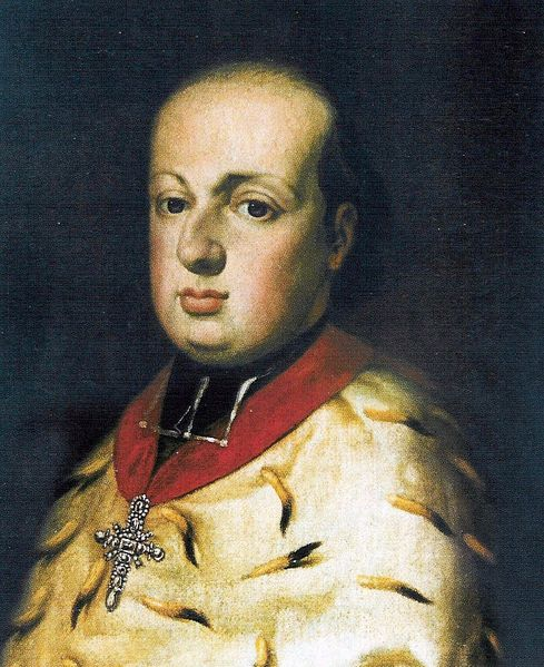 Archduke Maximilian Franz of Austria 1756-1801, Archbischop and Prince Elector of Cologne, Grand Master of the Teutonic Knights Order 1784-1801. Youngest son of Empress Maria Theresia of Austria and Holy Roman Emperor Franz I. Stephan of Lorraine.